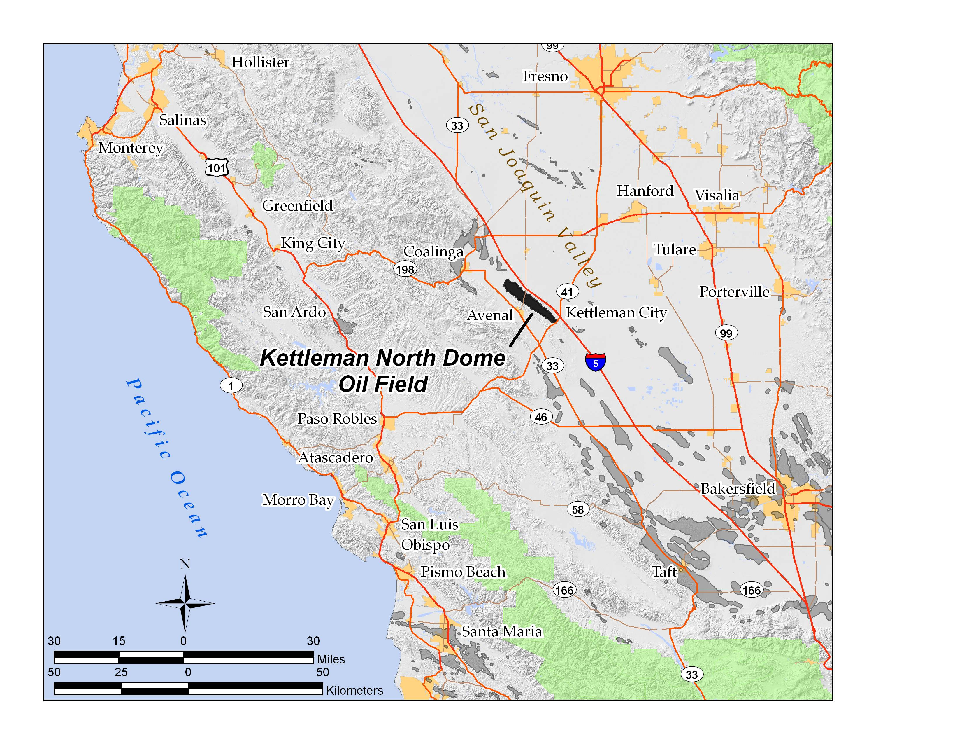 Map of the Kettleman Hills North Dome Oil Field. In Kings County, California. GFDL; made by me in ArcGIS 9.2; all data shown on this map is in the public domain